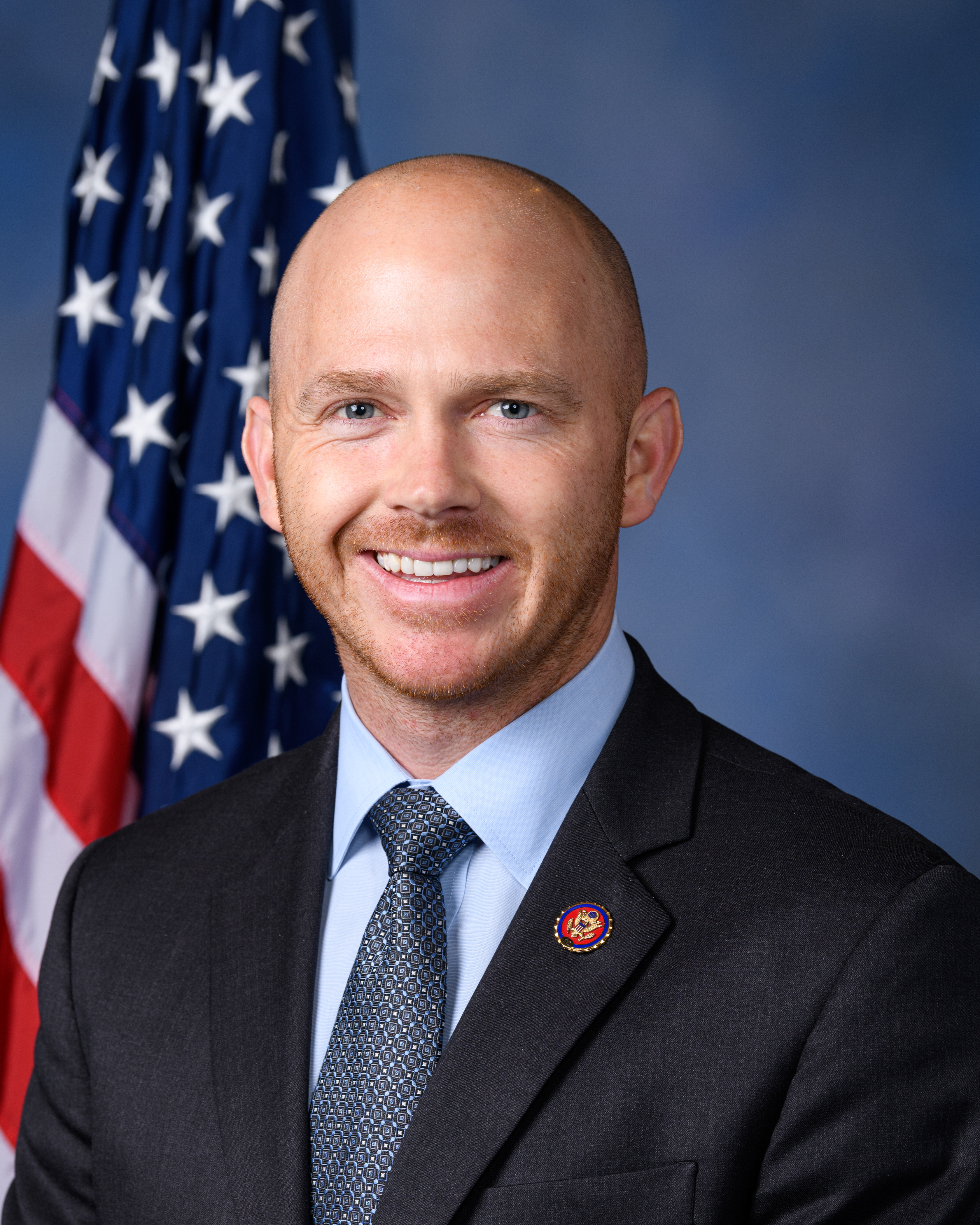 U.S. Rep. William Rimmons, R-SC